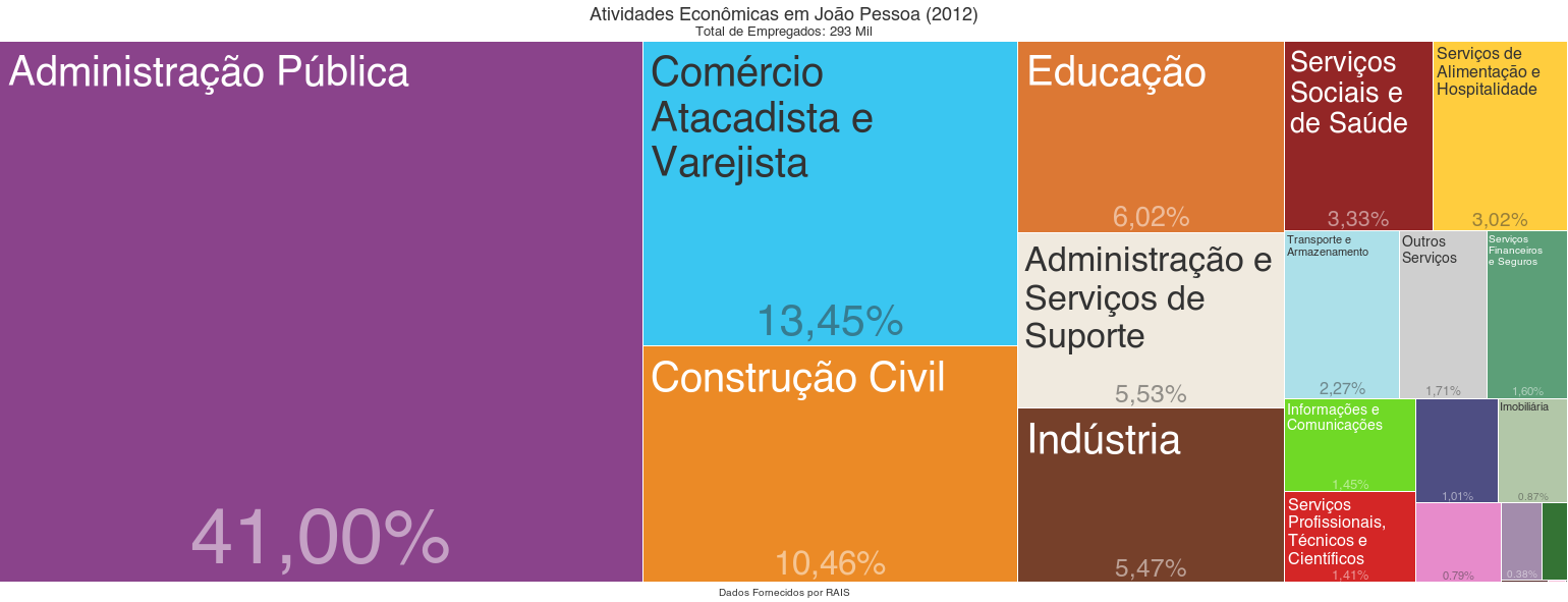 João Pessoa's economic activities by number of employees